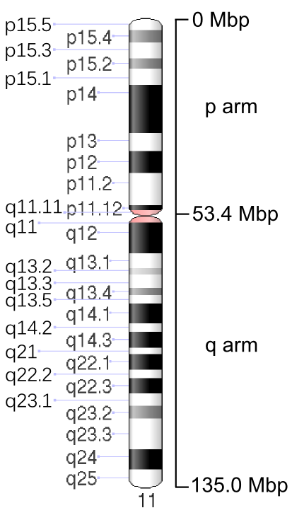 Ideogram of human chromosome 11. G-band, 550 bphs (bands per haploid set). Black and gray: Giemsa positive. Red: Centromere. Light blue: Variable region. Dark blue: Stalk. Mbp: Mega base pairs.